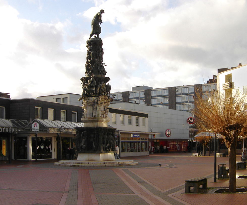 Tower of work, Salzgitter by Weber